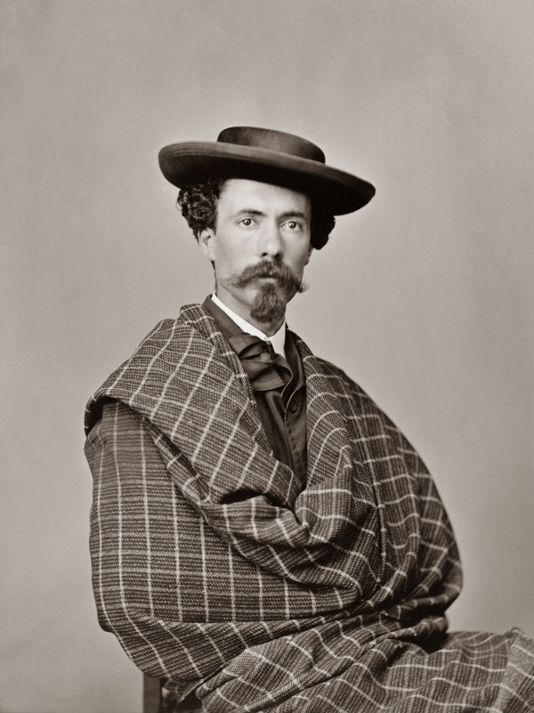 New toned print from stereoscopic collodion wet plate negative